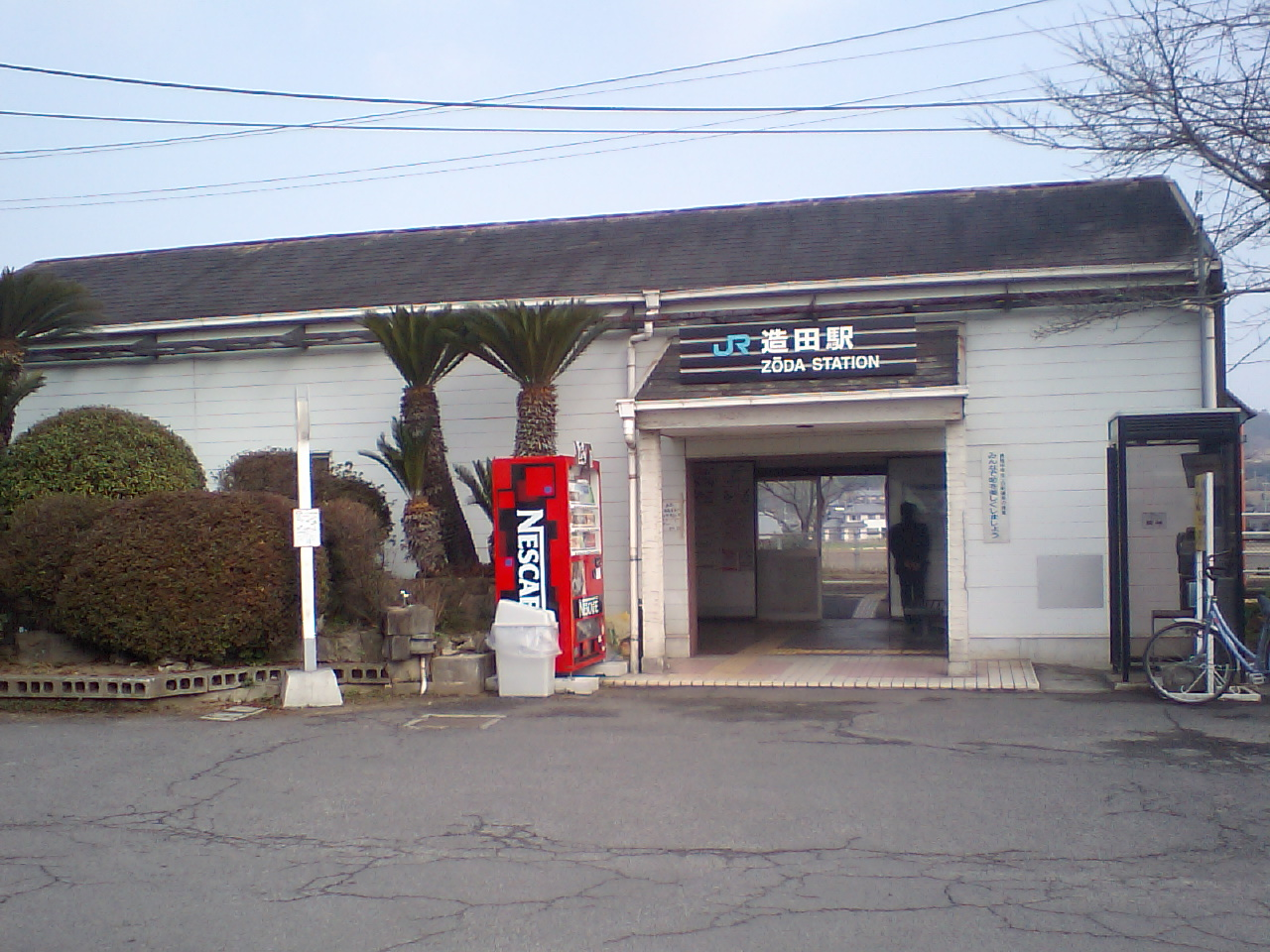 JR Zōda station February 6th 2006.